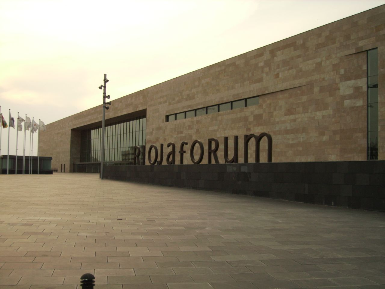 General View of Rioja Forum (Logroño)